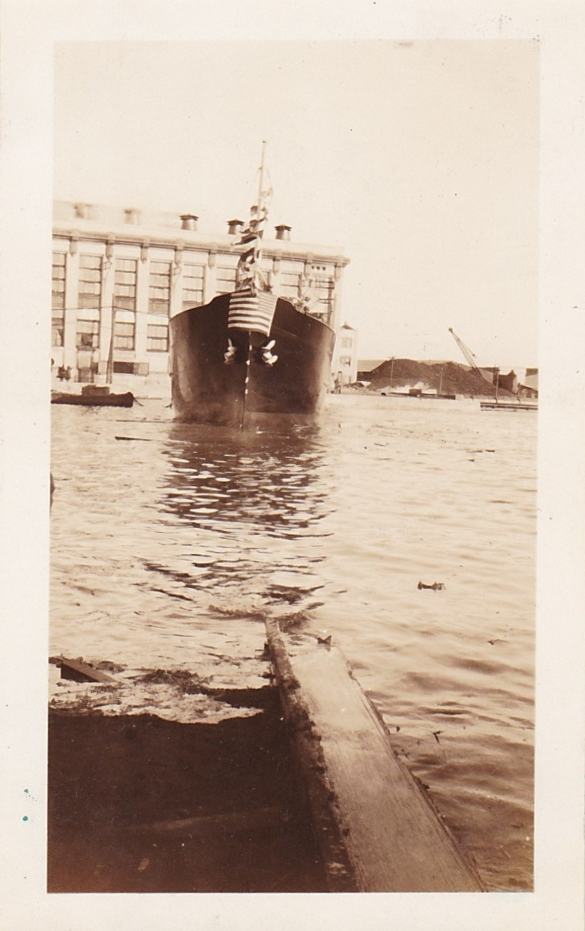 M/S Carolinian going down the slipway, launched by Charleston Dry Dock and Machine Co.